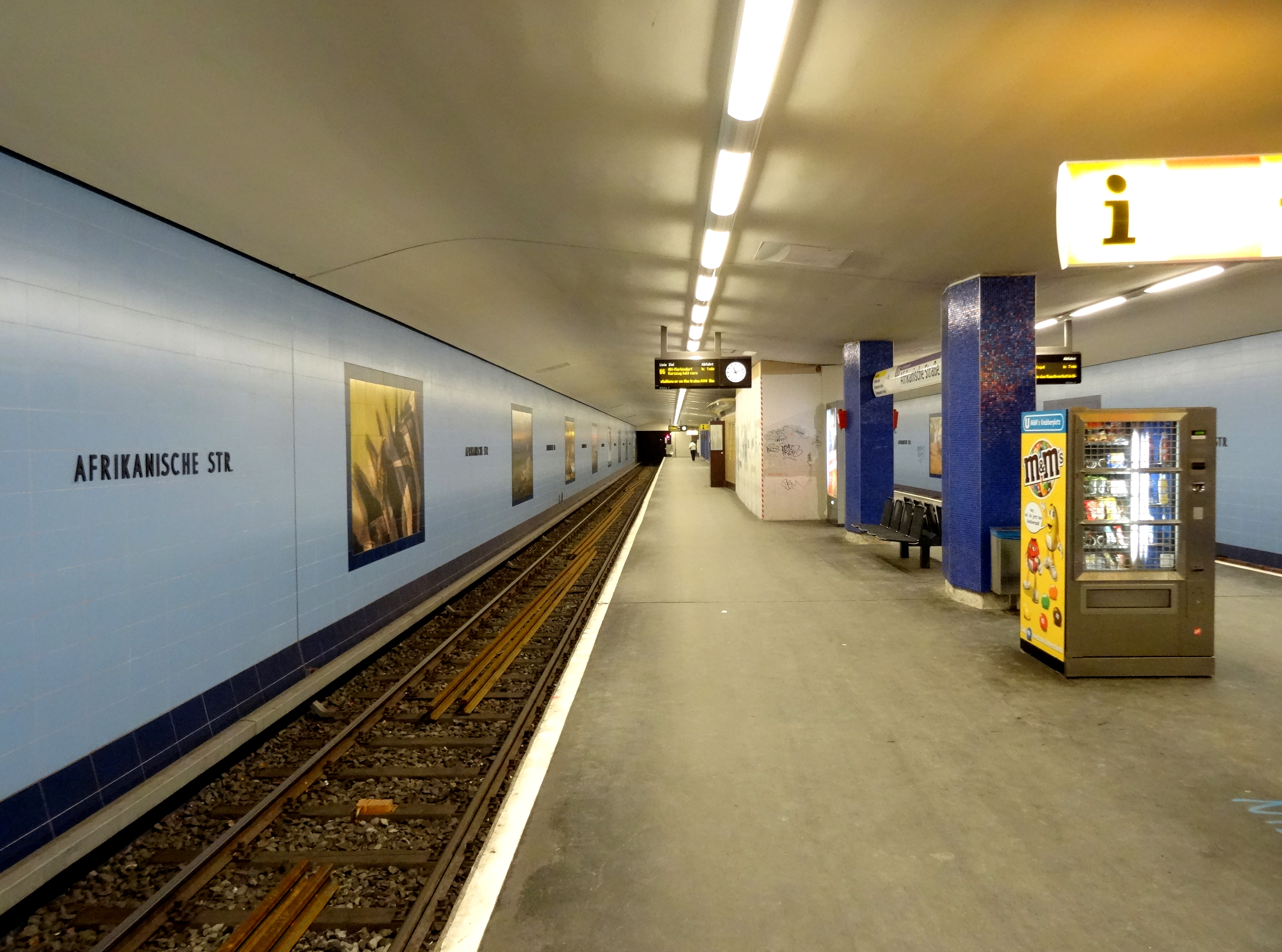 Afrikanische Straße underground station (line U6); Berlin, Germany